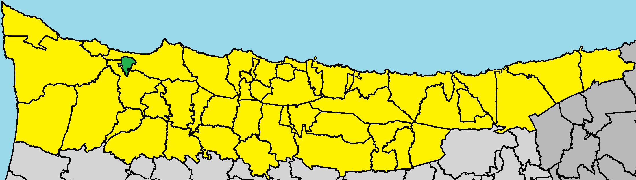 Panagra in Kyrenia District (de jure).